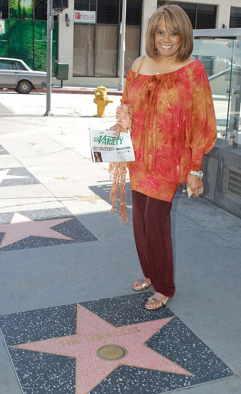 Claudette Rogers Robinson at a ceremony for the Funk Brothers to receive a star on the Hollywood Walk of Fame.